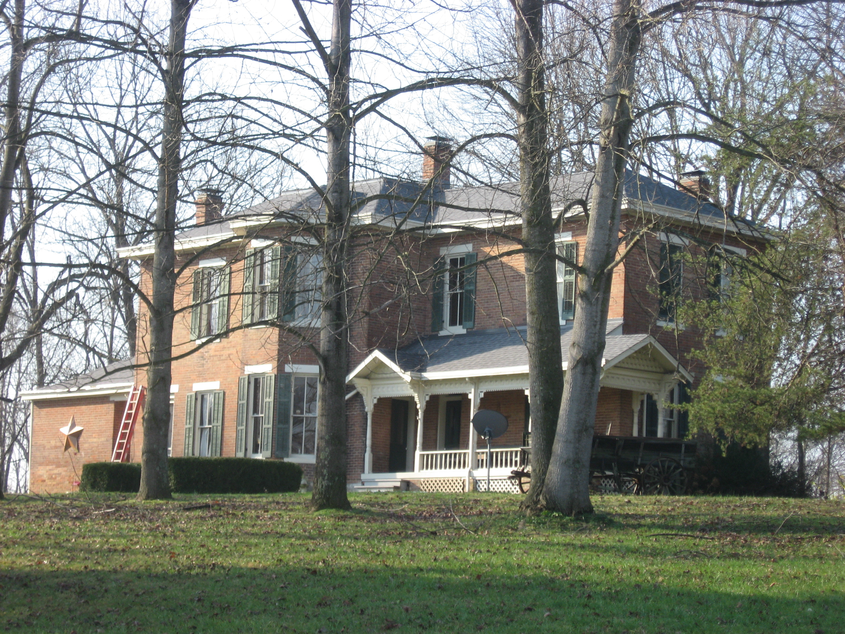 Eastern side and front of the D.W. Heagy Farmhouse, located at 3005 W200S southwest of Columbus in Columbus Township, Bartholomew County, Indiana, United States. Built in 1879, it is listed on the National Register of Historic Places.